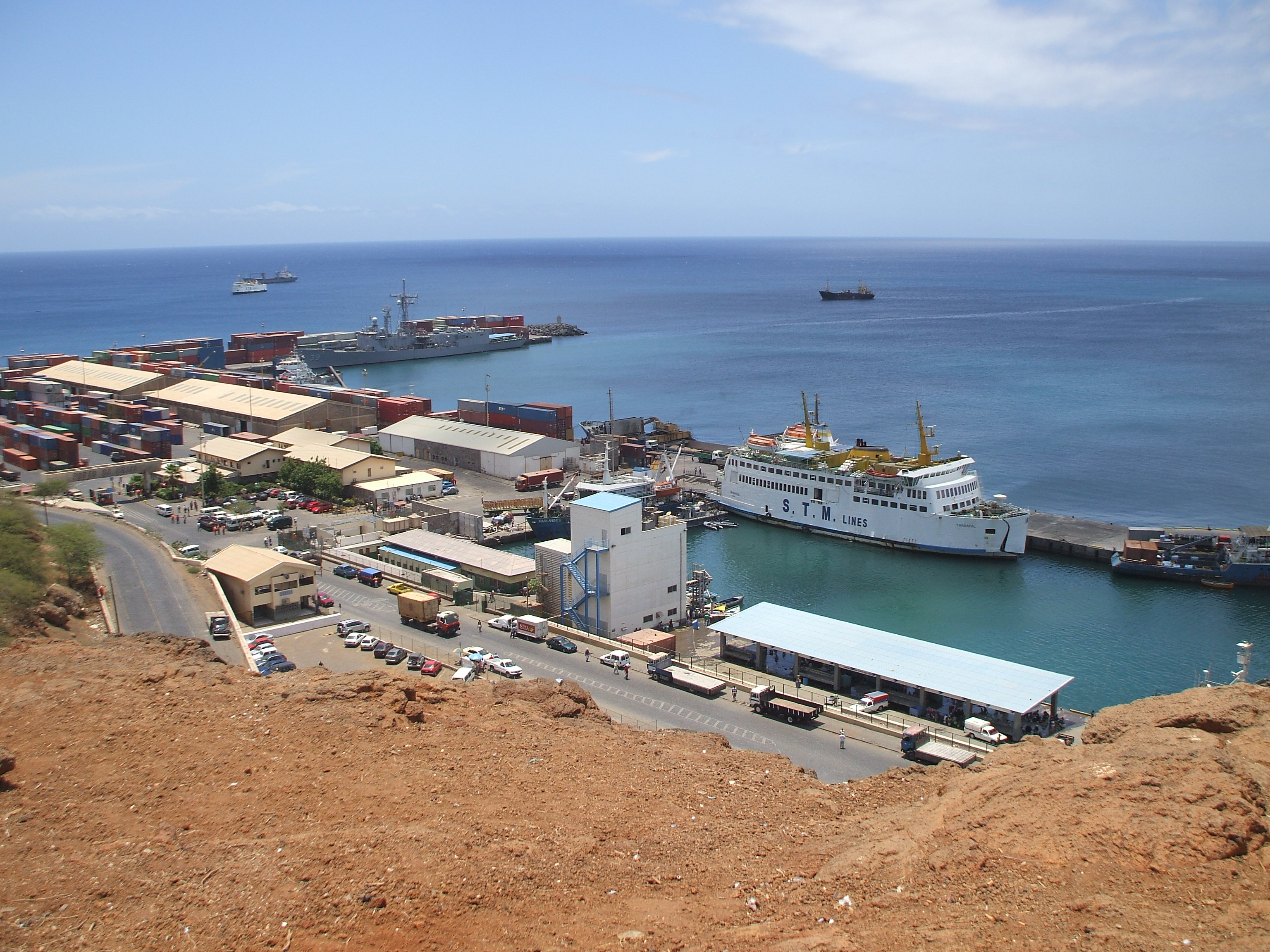 View over Praia’s Harbor from Achada Grande, in Praia